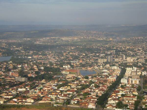 Photo taken outside of Sete Lagoas, Brasil